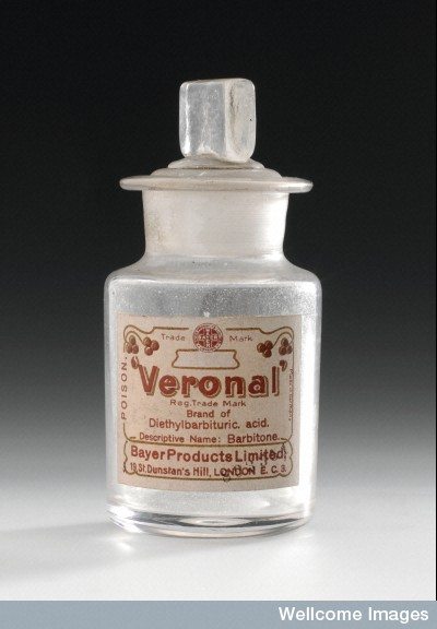 A bottle of Veronal, an early brand name version of the drug diethylbarbituic acid. It was obtained from the site and is under the Creative Commons Attribution only licence CC BY 4.0 Formerly 98 (talk) 16:39, 8 November 2014 (UTC)